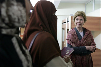 Laura Bush talks with female students in the newly built National Women’s Dormitory on the campus of Kabul University Wednesday, March 30, 2005, in Kabul, Afghanistan. The women’s dormitory was built to provide a safe place for young women to live while pursuing studies away from their families.